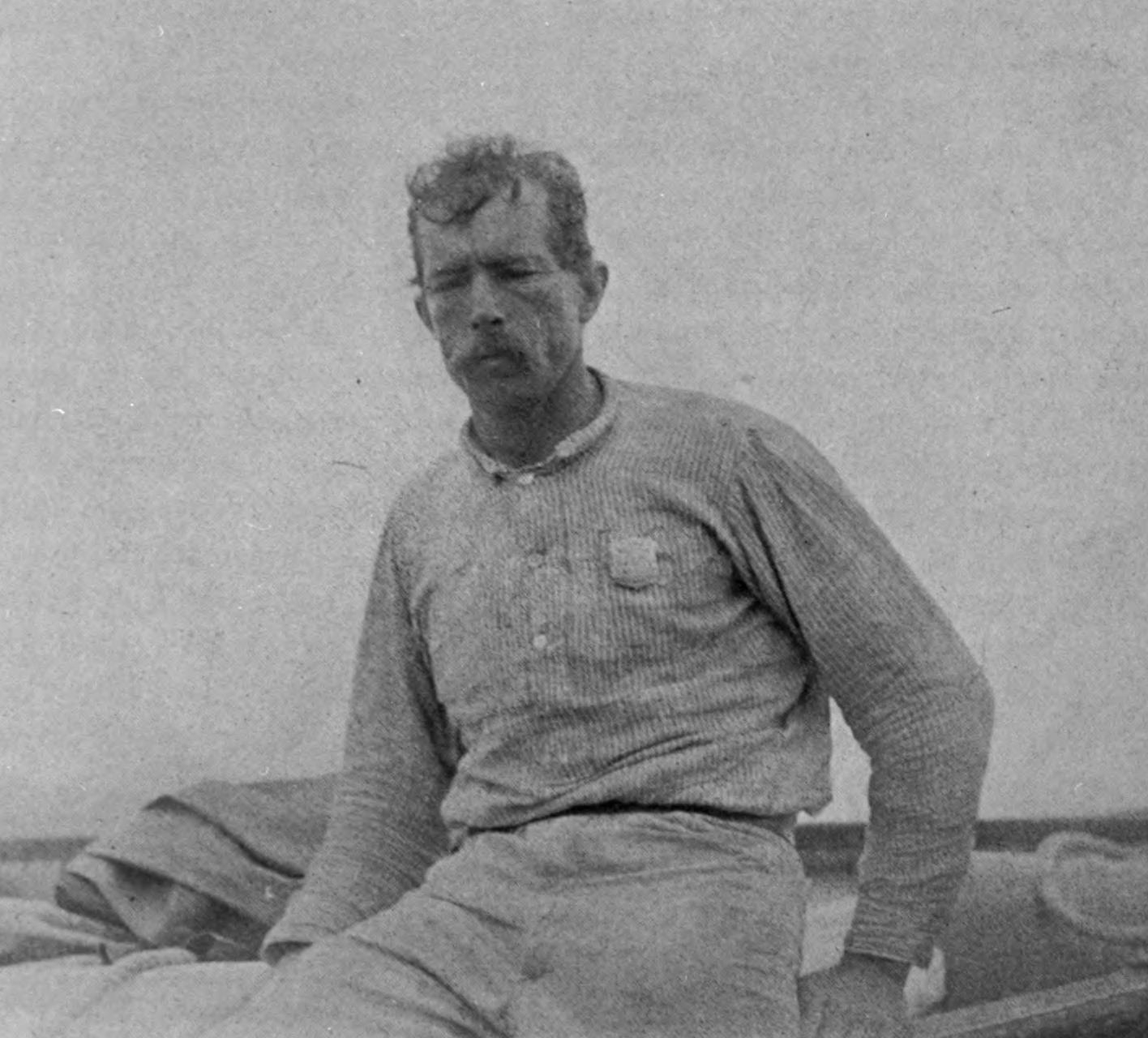 Early American game warden Guy Bradley, who was killed in 1905 while attempting to stop a bird poacher near Flamingo, Florida.